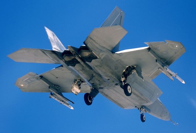 A F-22 with two AIM-120 mounted on LAU-128/A dual-rail-launchers